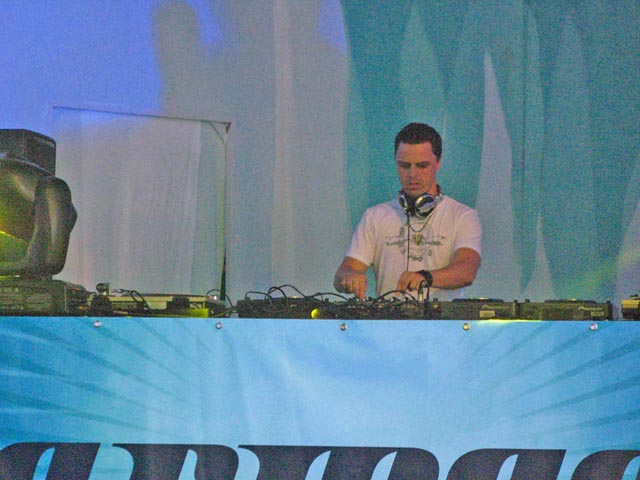 Markus Schulz playing at mystery land 2007 in the Armada stage.